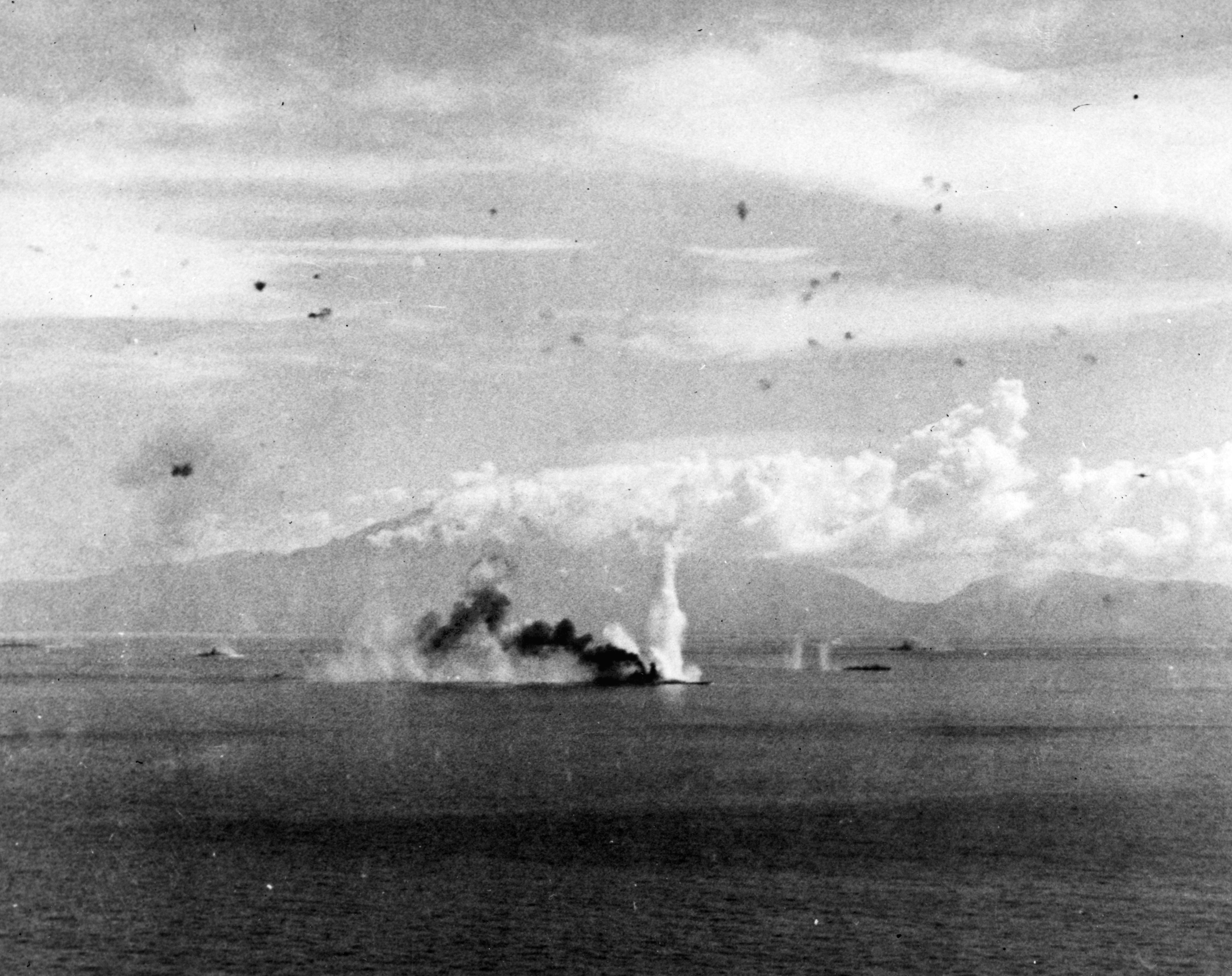 Battle of the Sibuyan Sea, 24 October 1944: The Japanese battleship Musashi is hit during attacks by aircraft from the U.S. Navy Task Force 38 in the Sibuyan Sea.